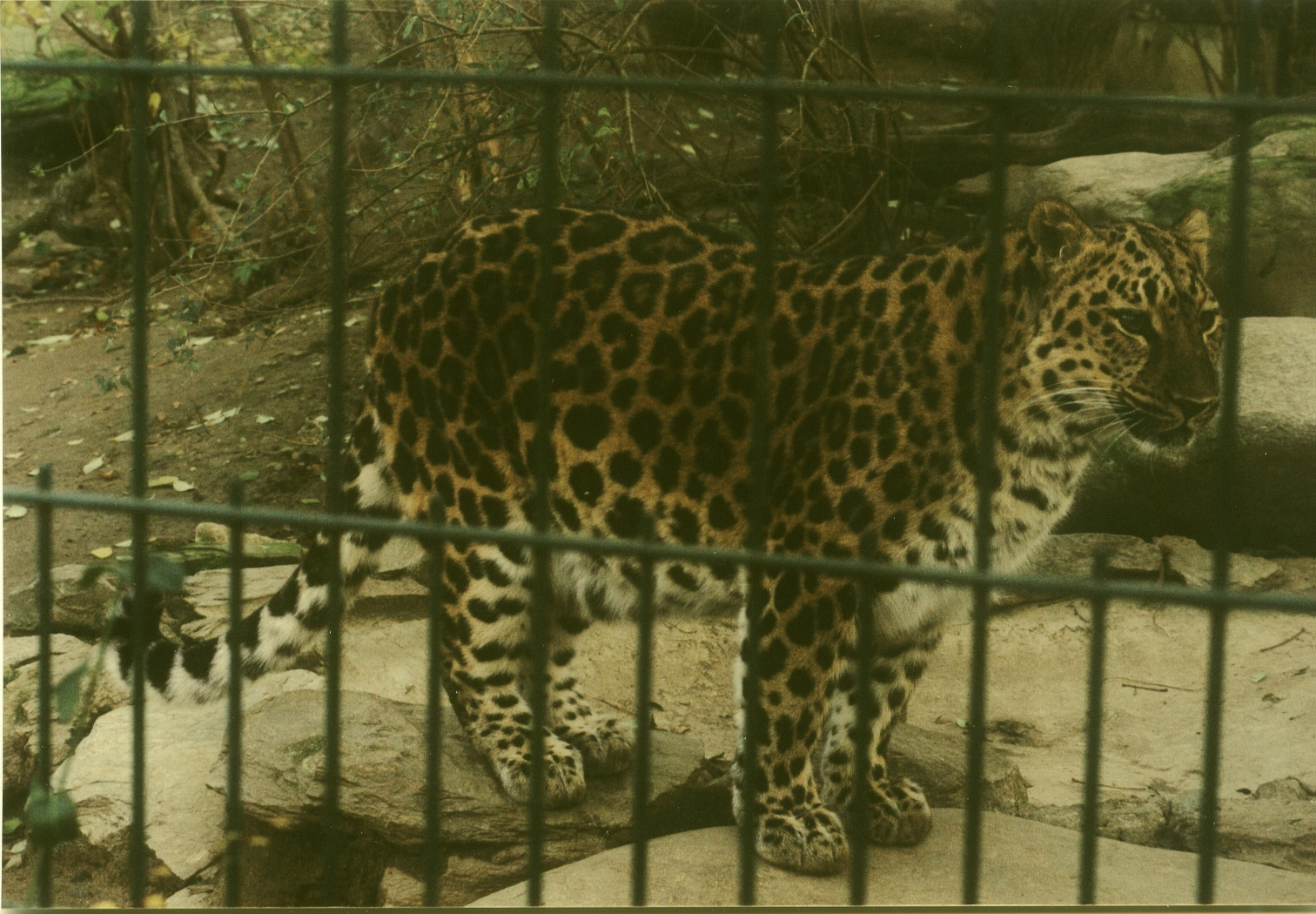 Amur Leopard female (winter coat) at Frankfurt Zoo.